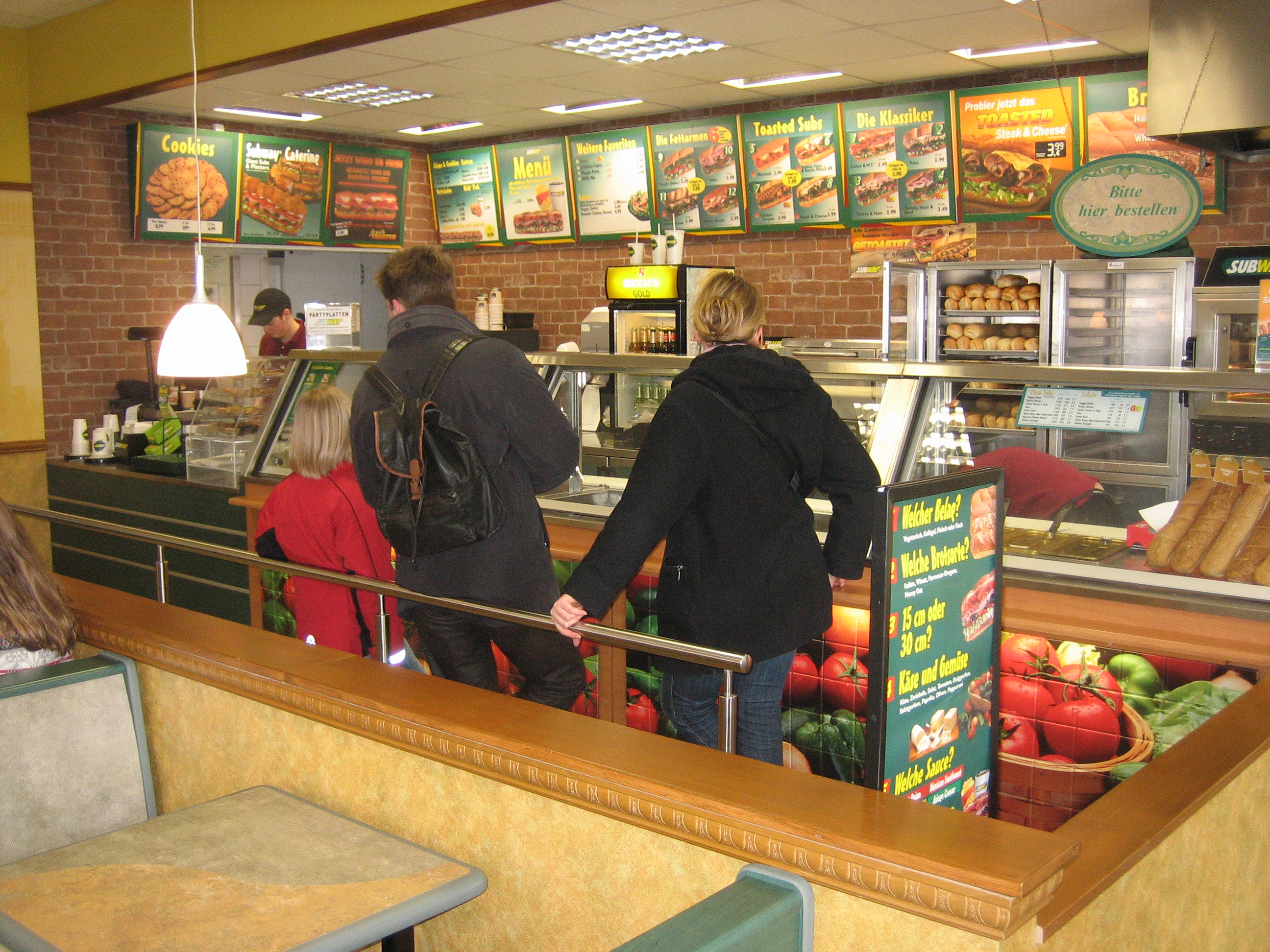 German Subway Sandwich Restaurant 33265, Cologne, Friesenplatz